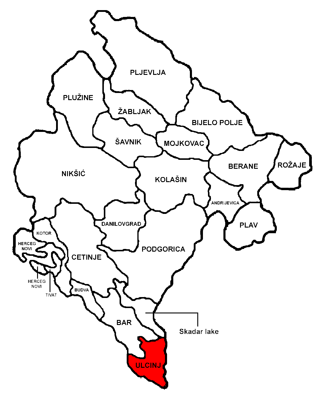 Location of Ulcinj within Montenegro